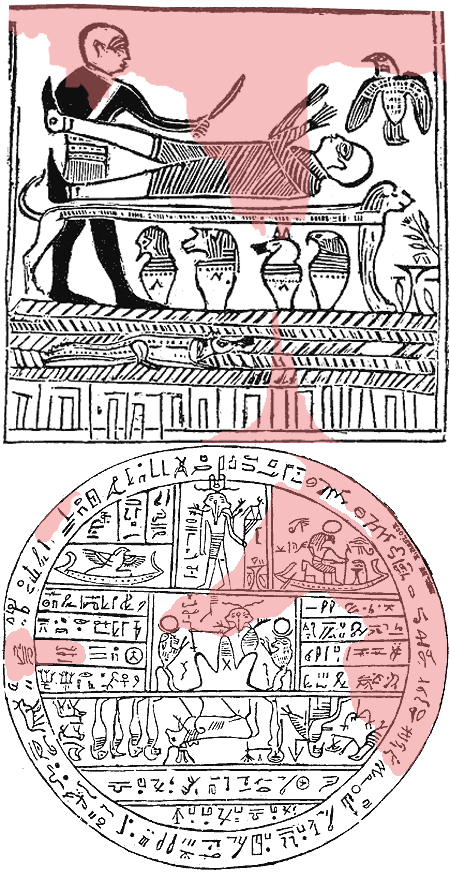 A comparison of Facsimiles 1 and 2 from the Book of Abraham, with the corresponding lacunae from the papyri and Kirtland Egyptian papers denoted in red.